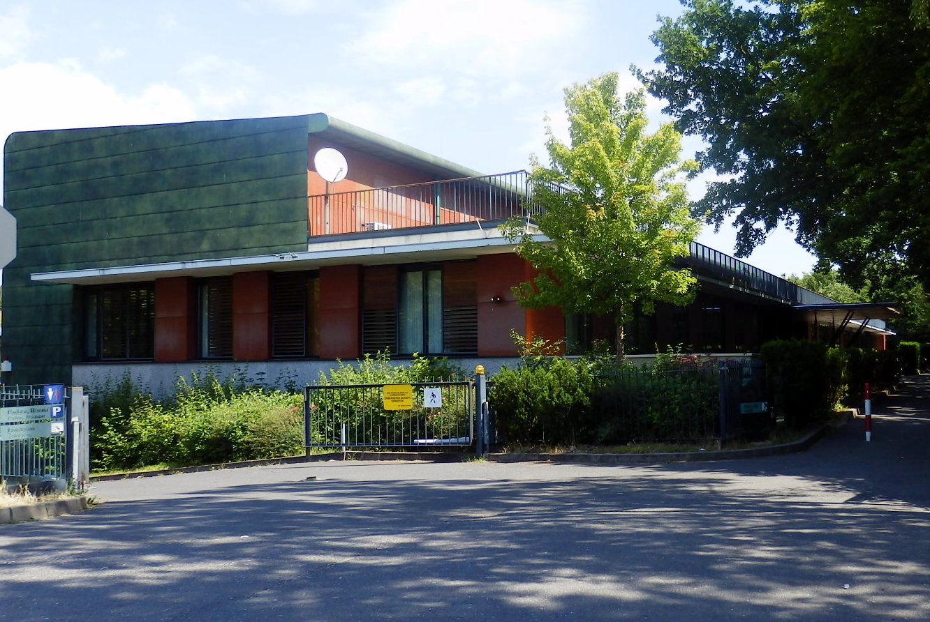 LFVH front gate